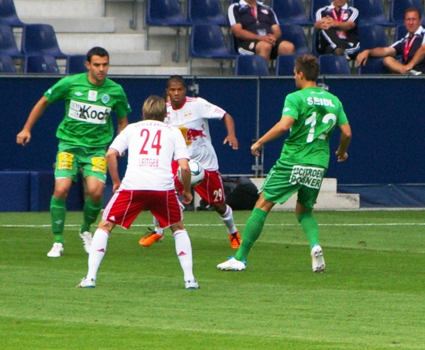 league match